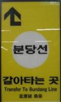 Seoul subway, transfer sign Bundang line